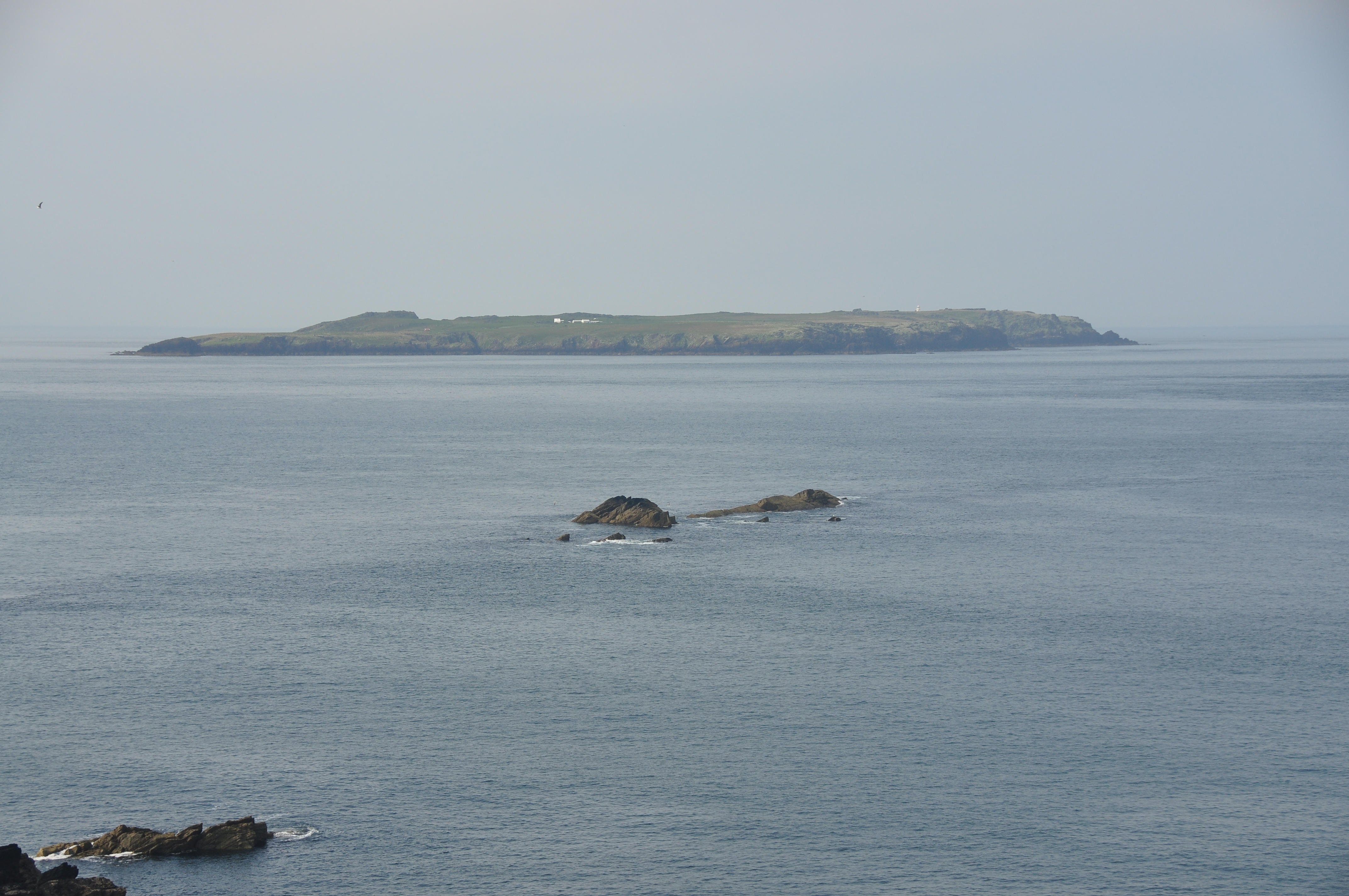 Skokholm from Martin's Haven